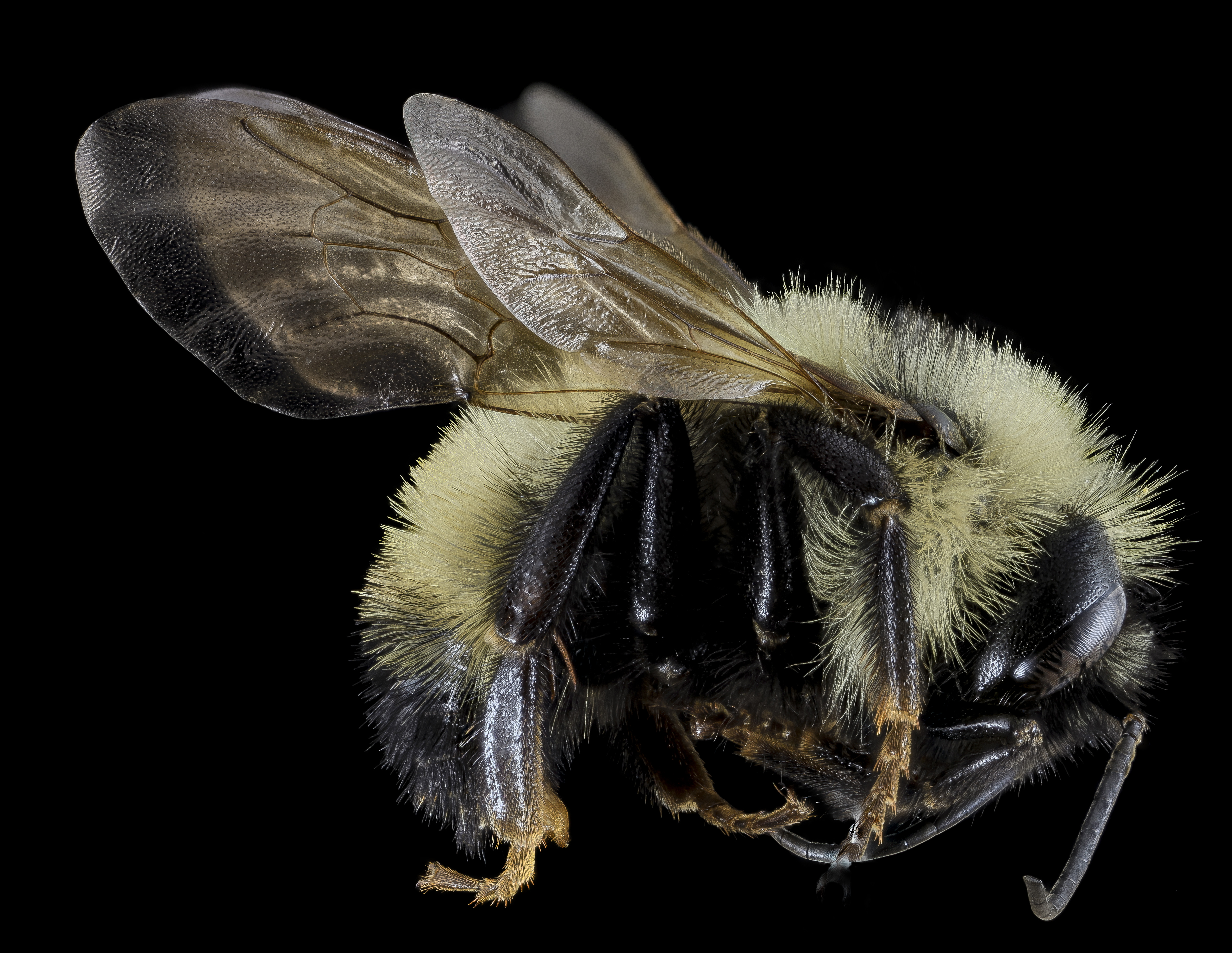 This bumblebee is a nest parasite of other bumblebees....mostly B. impatiens. The parasite kills or disables the host queen and then has the workers from the host bee raise her babies. Captured by Tim McMahon in Cecil County Maryland Photograph by Colby Francoeur. Canon Mark II 5D, Zerene Stacker, Stackshot Sled, 65mm Canon MP-E 1-5X macro lens, Twin Macro Flash in Styrofoam Cooler, F5.0, ISO 100, Shutter Speed 200, link to a .pdf of our set up is located in our profile